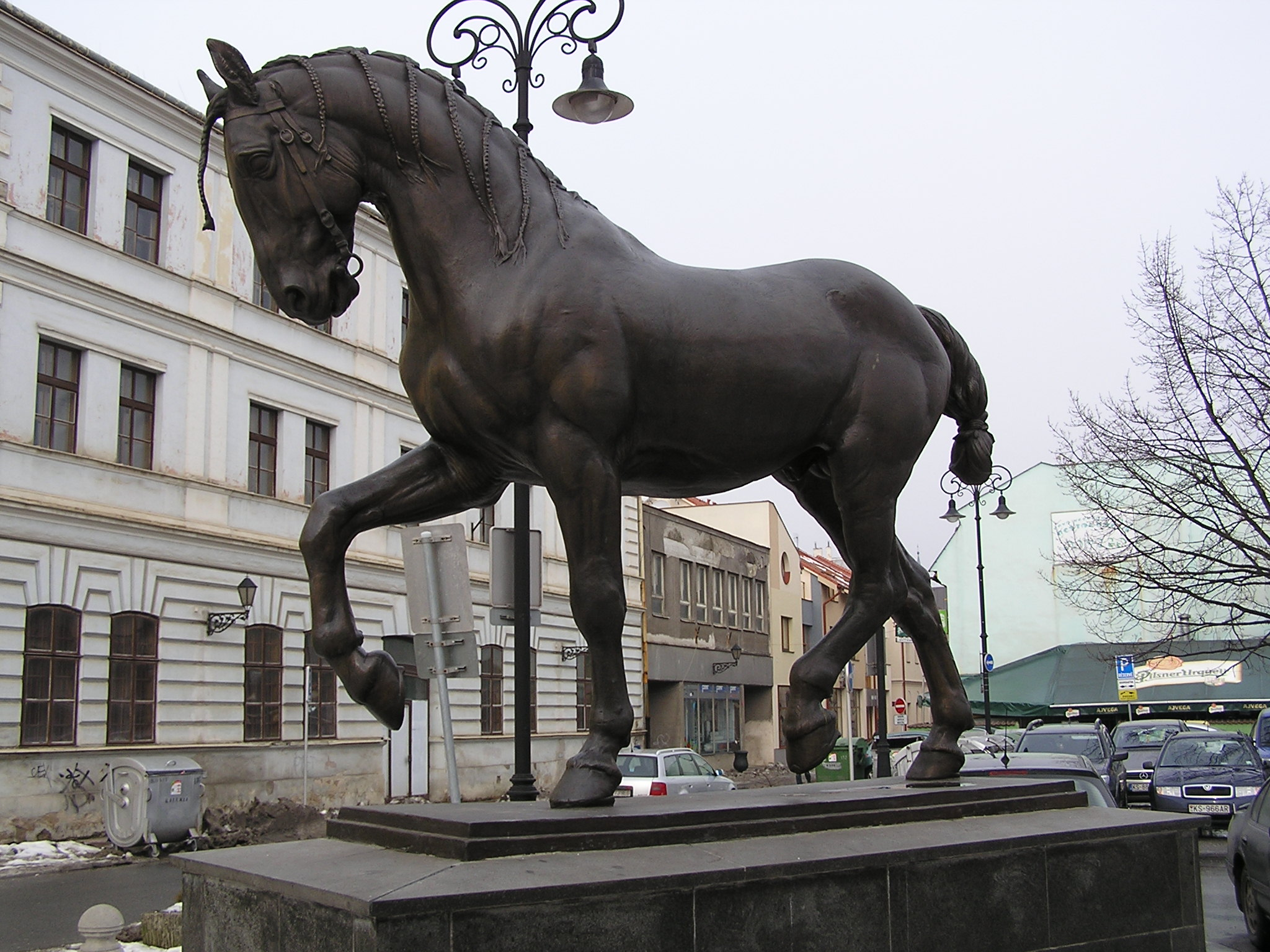 Stallion Borek, the work of Josef Václav Myslbek exhibited in Košice, Slovakia. It was a model for the Wenceslas Monument in Prague, Czech Republic.